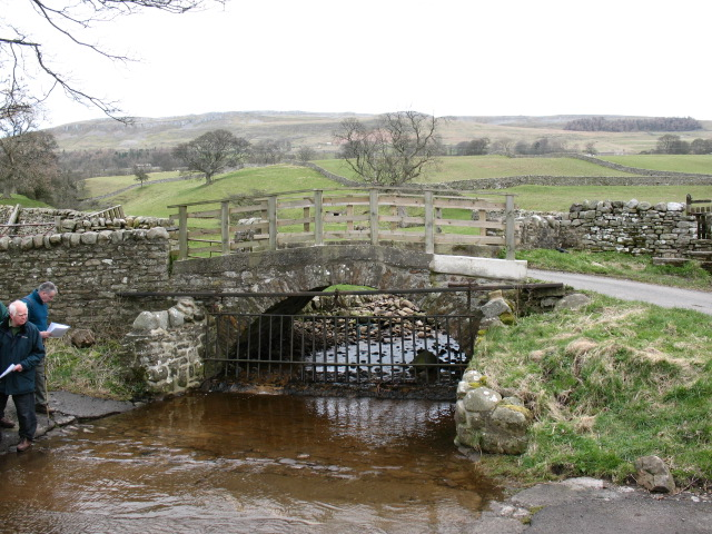 Bridge and Ford near Nappa Mill A stone arch bridge over Newbiggin Beck a couple of hundred metres upstream from its confluence with the Ure.